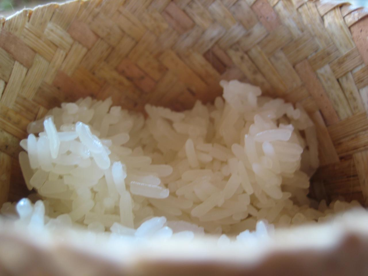 Lao sticky rice, served in a traditional basket.